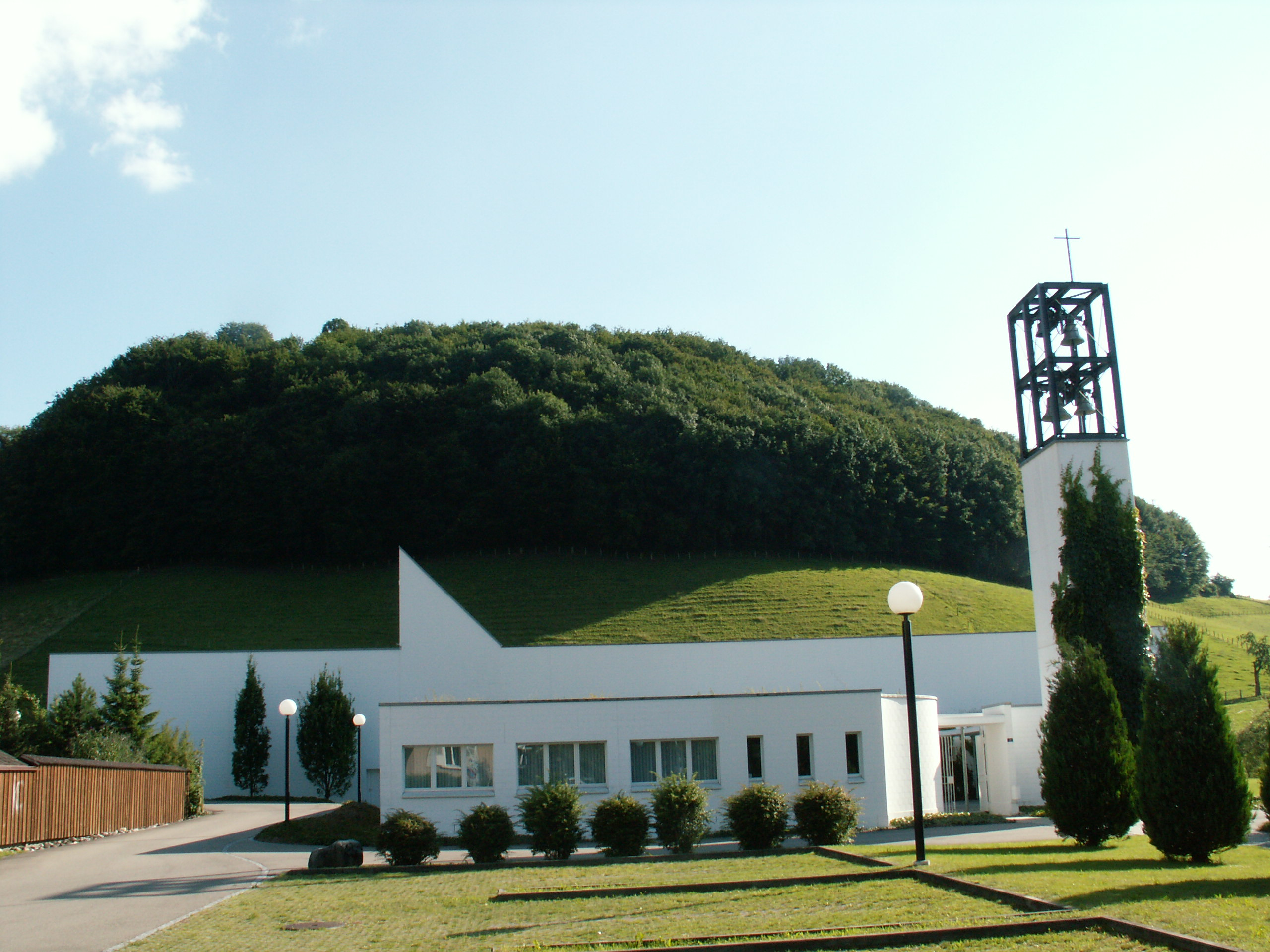 Catholic church in Worb, canton of Berne, Switzerland